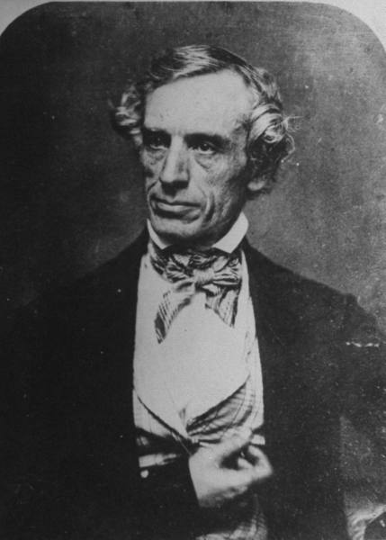 Inventor Samuel Morse in photo copied from daguerreotype attributed to Daguerre.